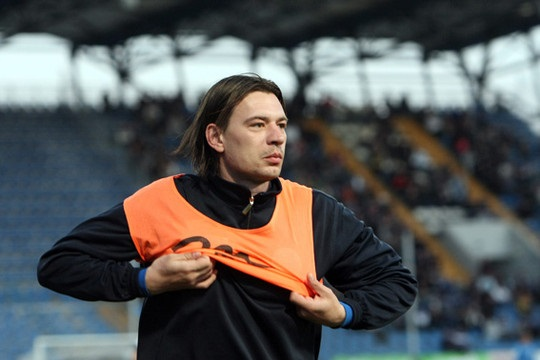 FC ZTE